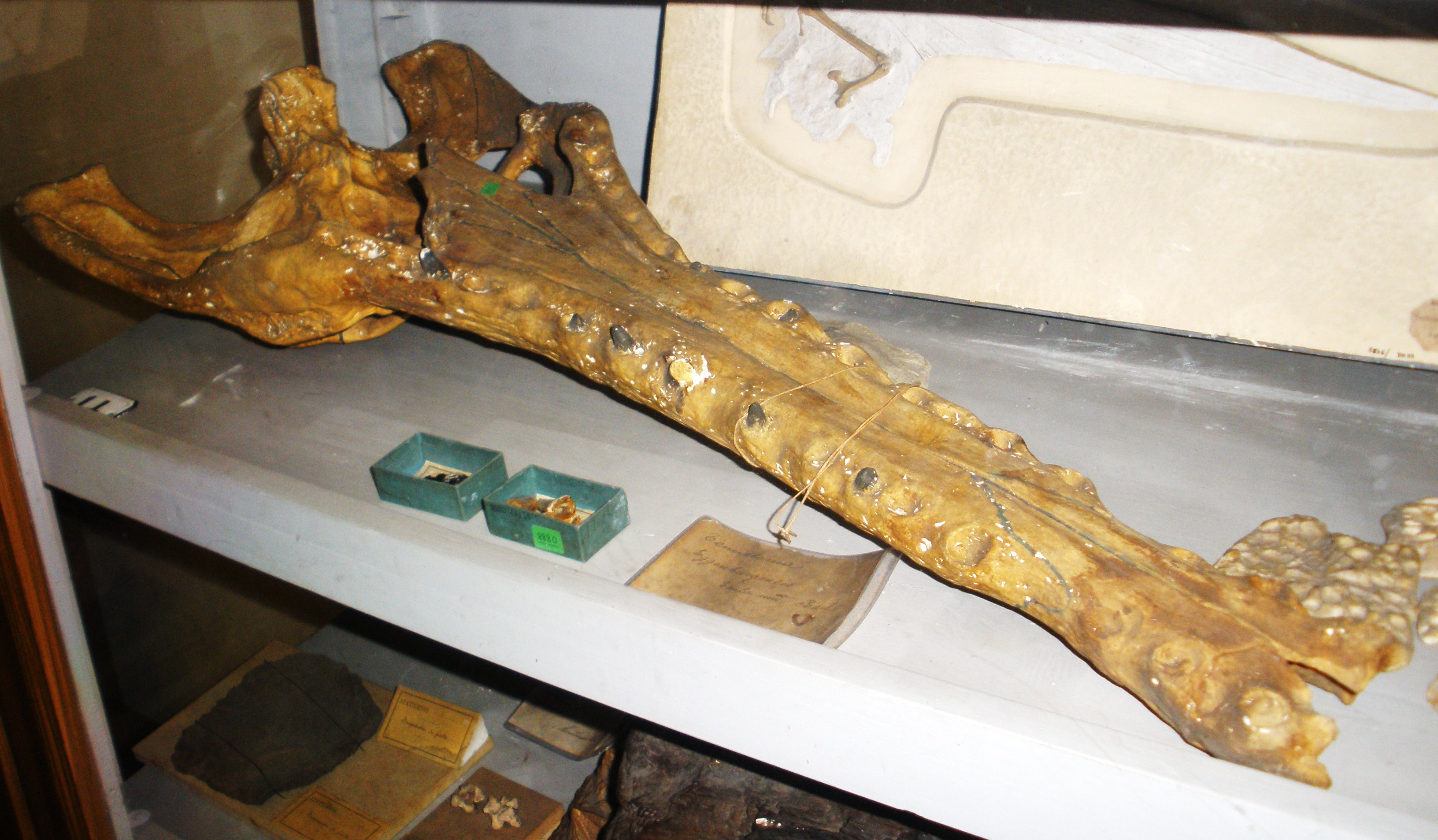 Fossil of Gavialosuchus eggenburgensis, a fossil crocodile